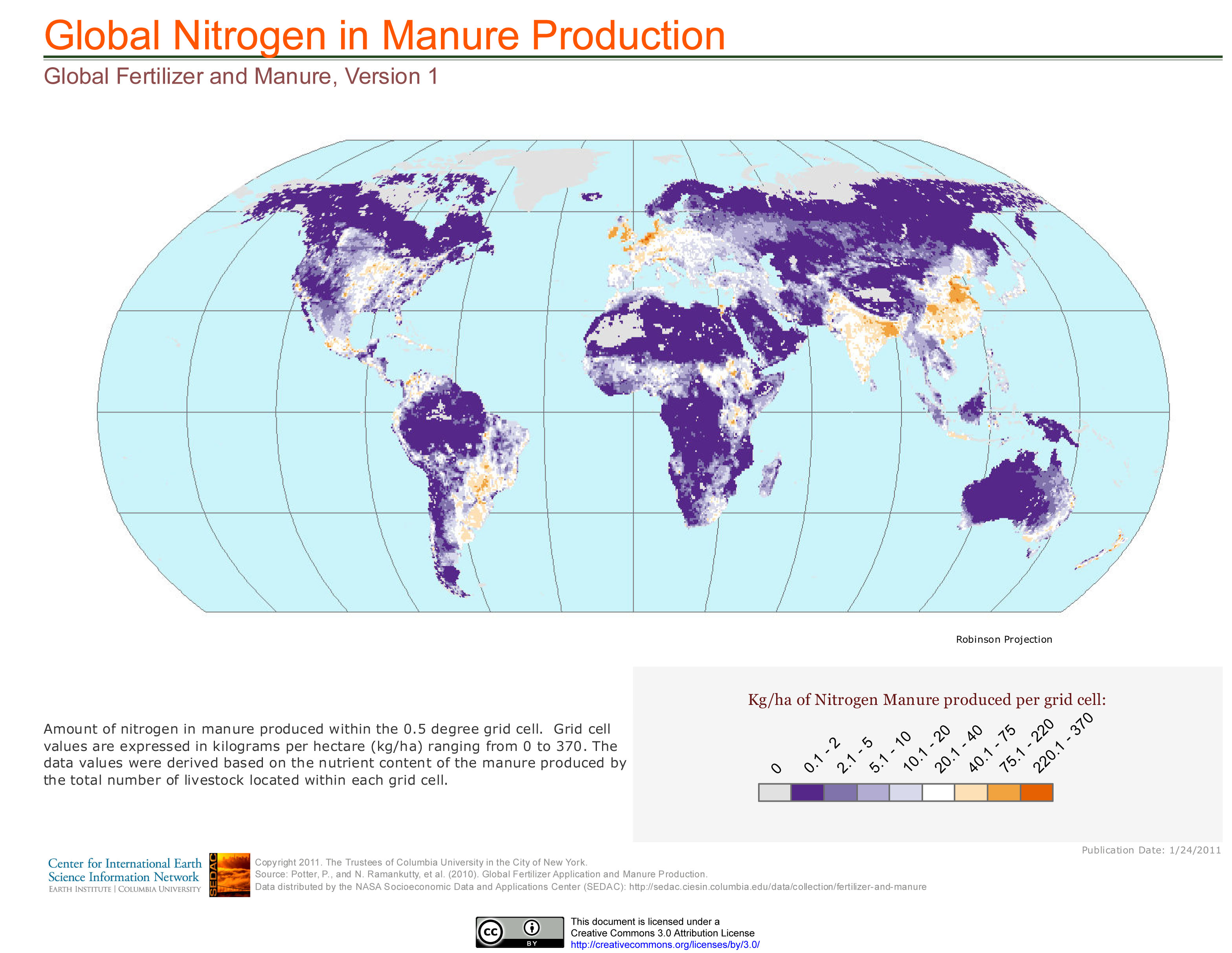 Amount of nitrogen in manure produced within the 0.5 degree grid cell. Grid cell values are expressed in kilograms per hectare (kg/ha) ranging from 0-370. The data values were derived based on the nutrient content of the manure produced by the total number of livestock located within each grid cell.